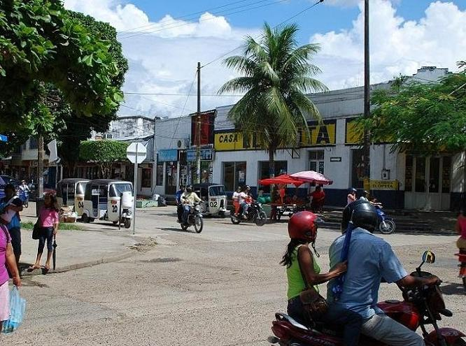 Leticia, frontier town in the Amazon triangle with Peru and Brazil